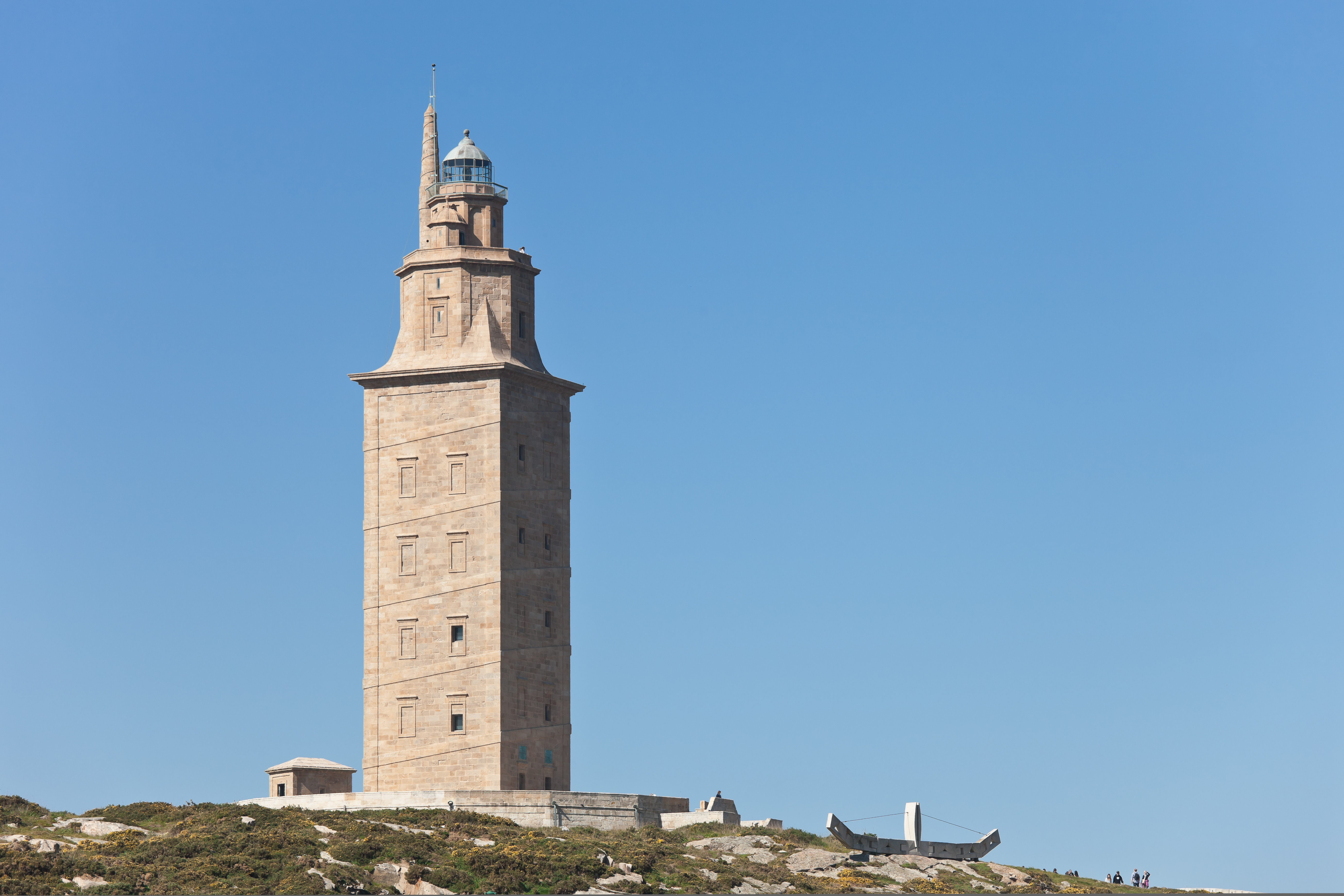 Tower of Hercules, A Coruña, GaliciaGalego: Torre de Hércules, A Coruña, Galicia